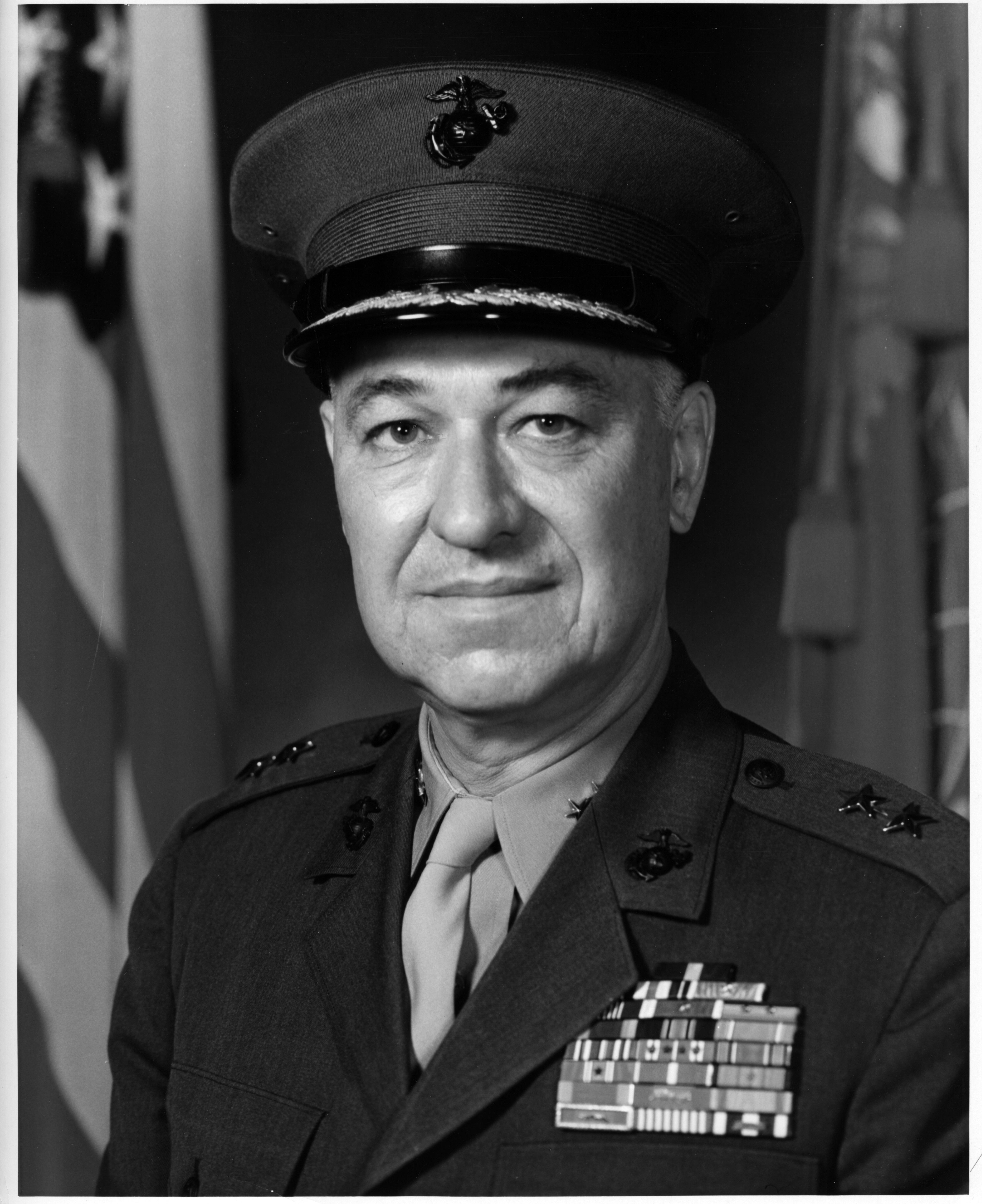 Carl William Hoffman (December 24, 1919 - May 31, 2016) was a highly decorated officer of the United States Marine Corps with the rank of Major General. He is most noted for his service with 2nd Battalion, 8th Marines during World War II or later as Commanding general of III Marine Amphibious Force during Operation Frequent Wind.